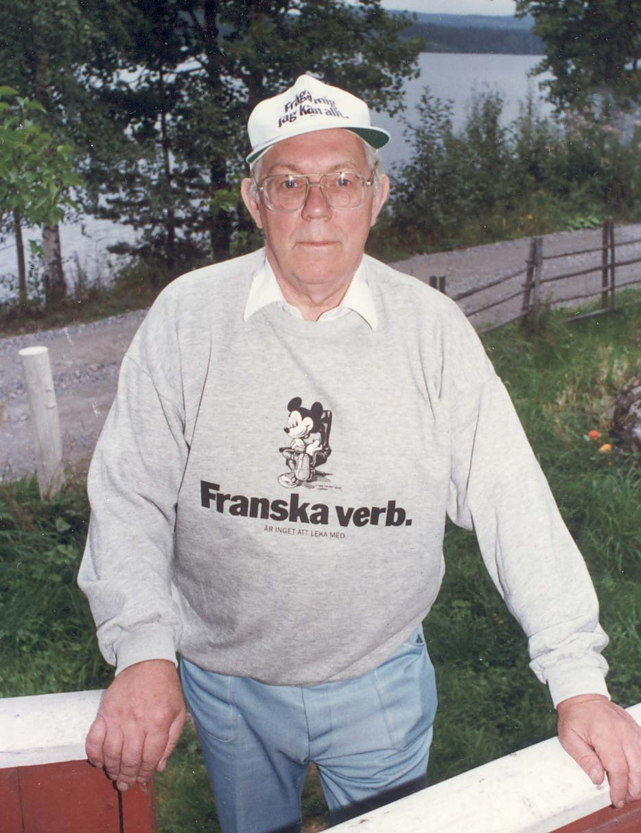 Swedish educator-author Arne Klum, as released by image creator FamSAC Place: Standers, Sjöbovägen 6242, Ludvika, Sweden